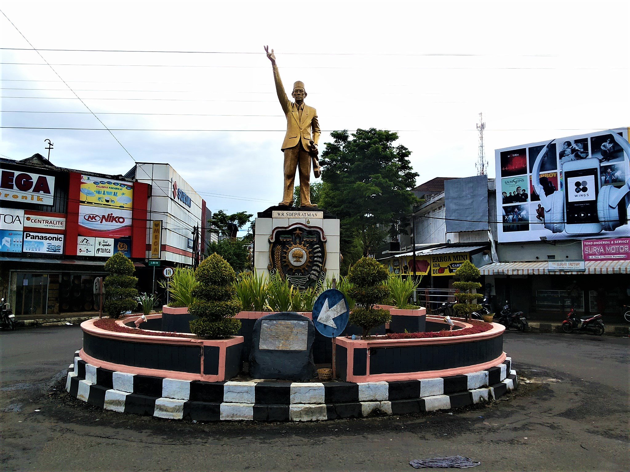 The statue of Wage Rudolf Supratman, an arranger of the Indonesia national anthem, "Indonesia Raya". The statue is in Purworejo, the hometown of Wage Rudolf Supratman.